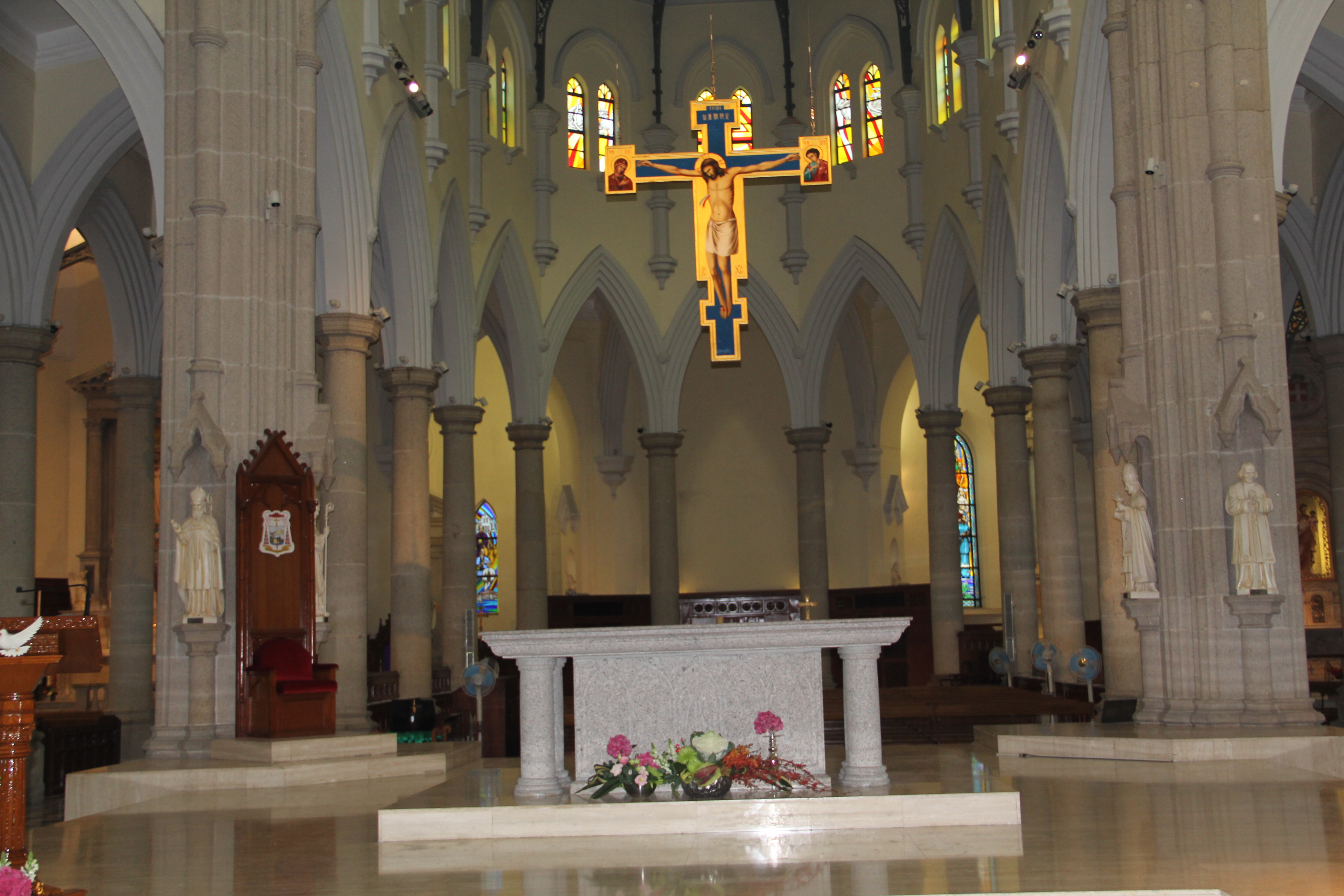 This is a photo of the main altar of the Roman Catholic Cathedral in Hong Kong.